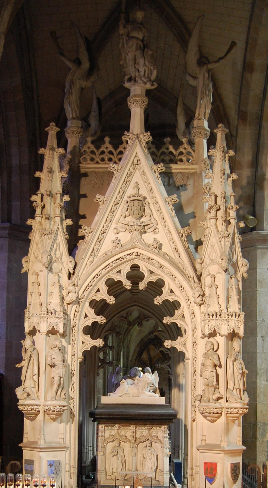 mausoleum of St Yves Treguier (Ivo Hélory)